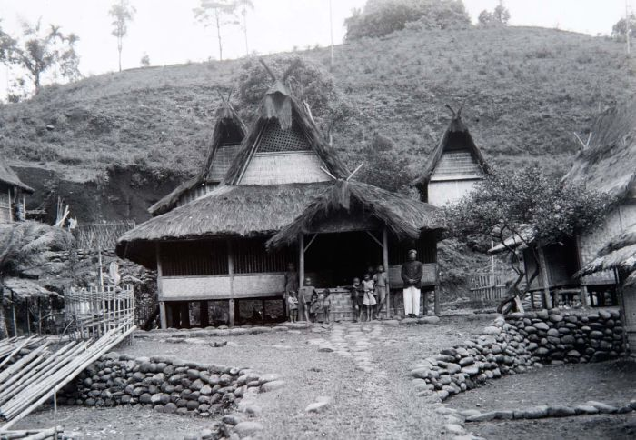 House of a village priest, Negla